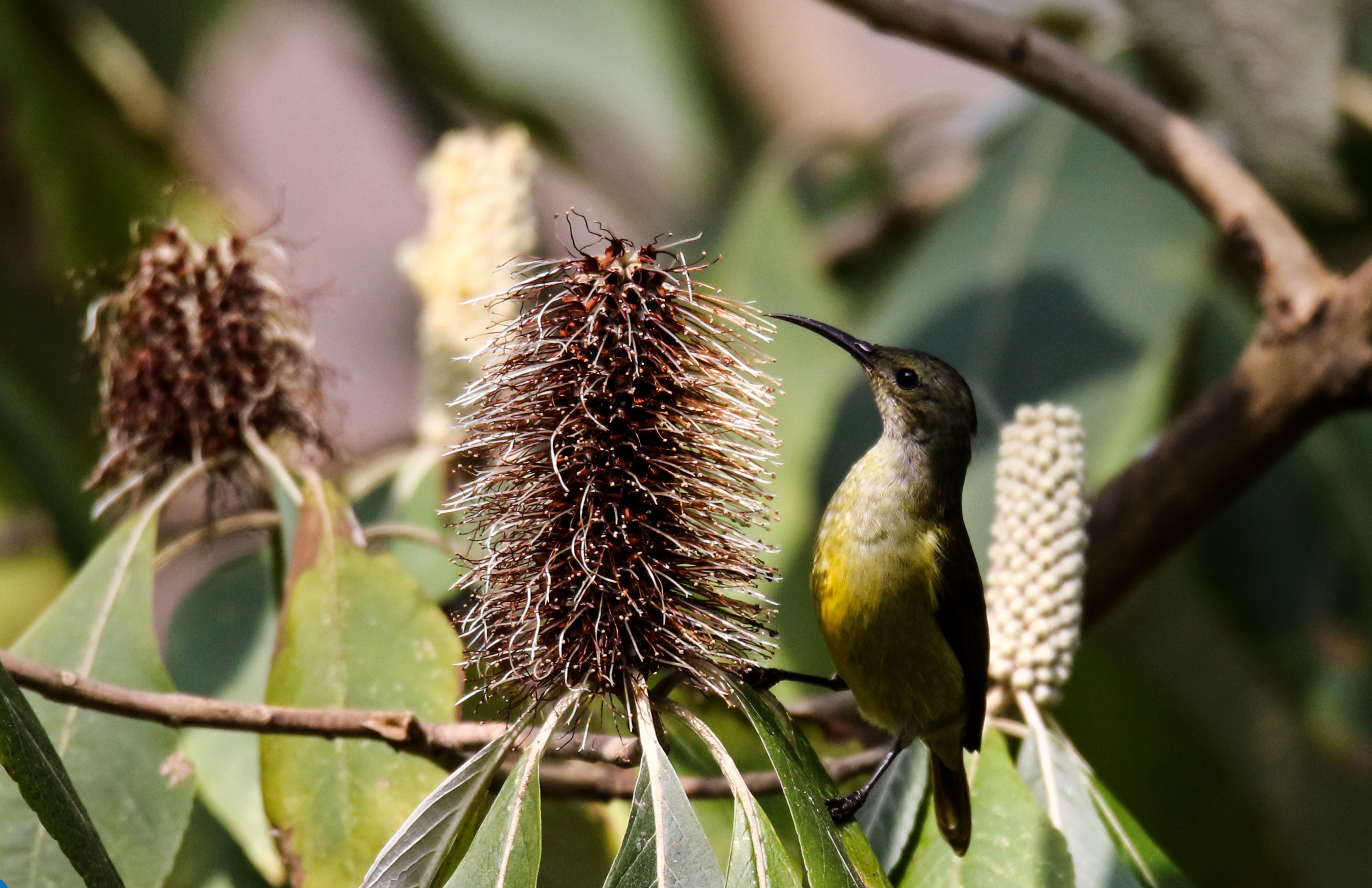 Aethopyga ignicauda, female, Birds of Nepal